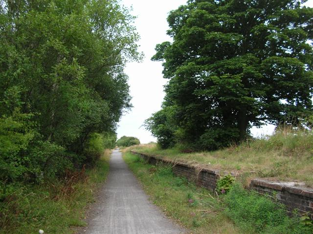 Hurworth Station. The former railway now forms part of the Haswell to Stockton cycle route. Seen here is the now very overgrown platform of Hurworth station.